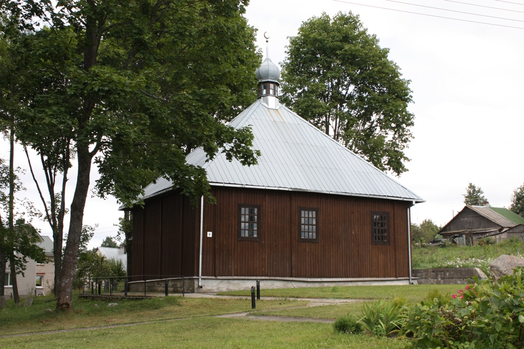 Mosque in Keturiasdešimt Totorių village, Vilnius district, Lithuania.